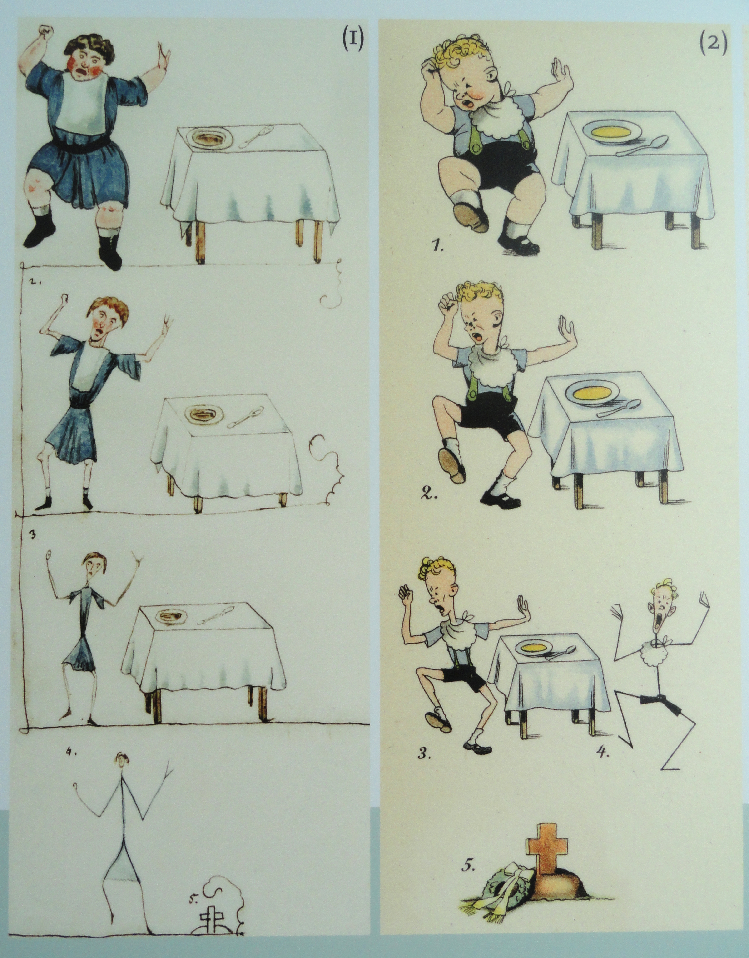 Illustration in the Struwwelpeter Museum, Schubertstr. 20 60325 Frankfurt am Main, Germany. (I asked). Artwork is old enough so that it is in the public domain. I took this photograph and release it into the public domain.